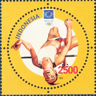 Stamps of Indonesia